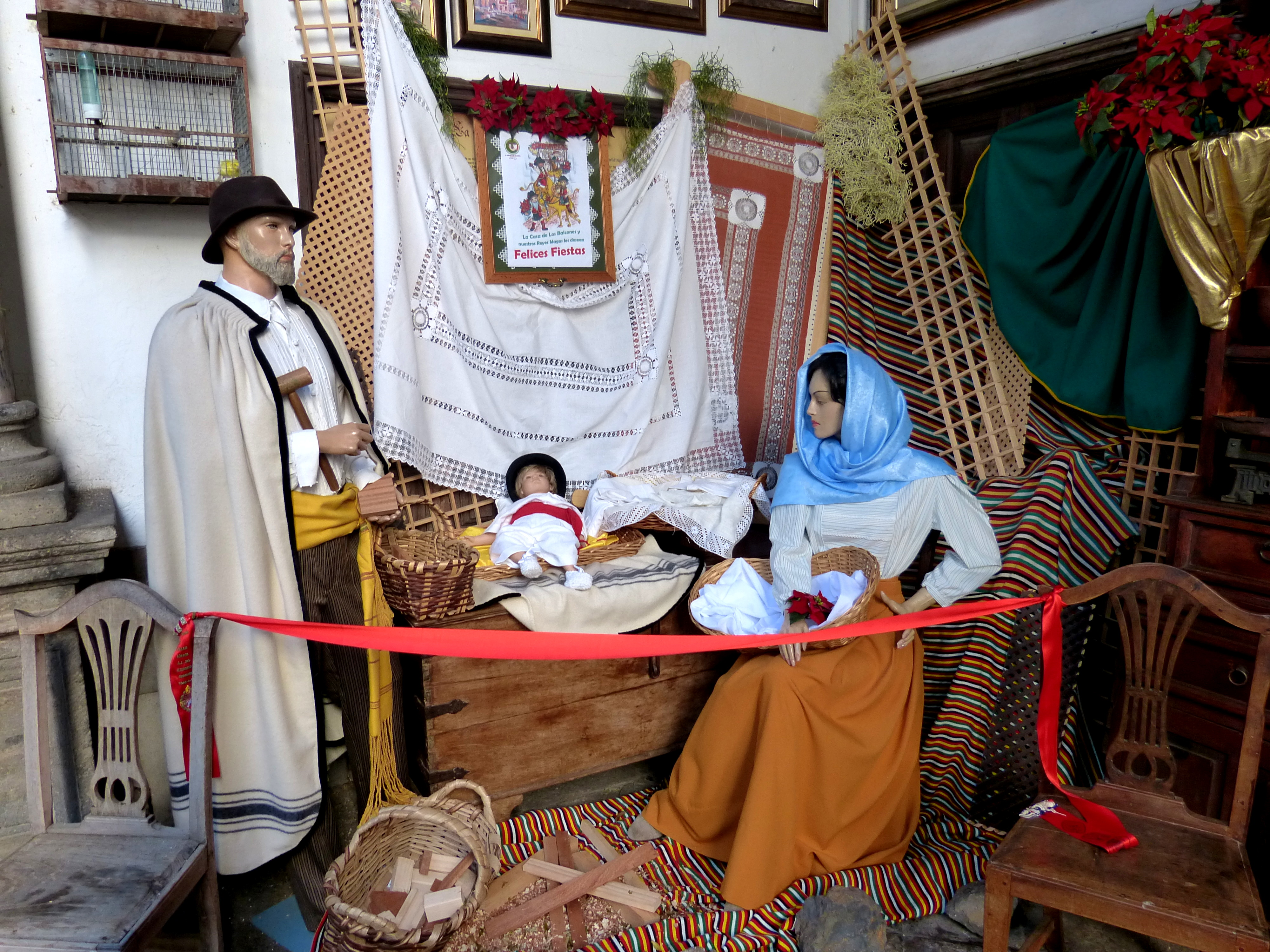 La Orotava ( Tenerife ). Casa Mendez-Fonseca ( 17th century ): Patio - Nativity scene in local costumes.